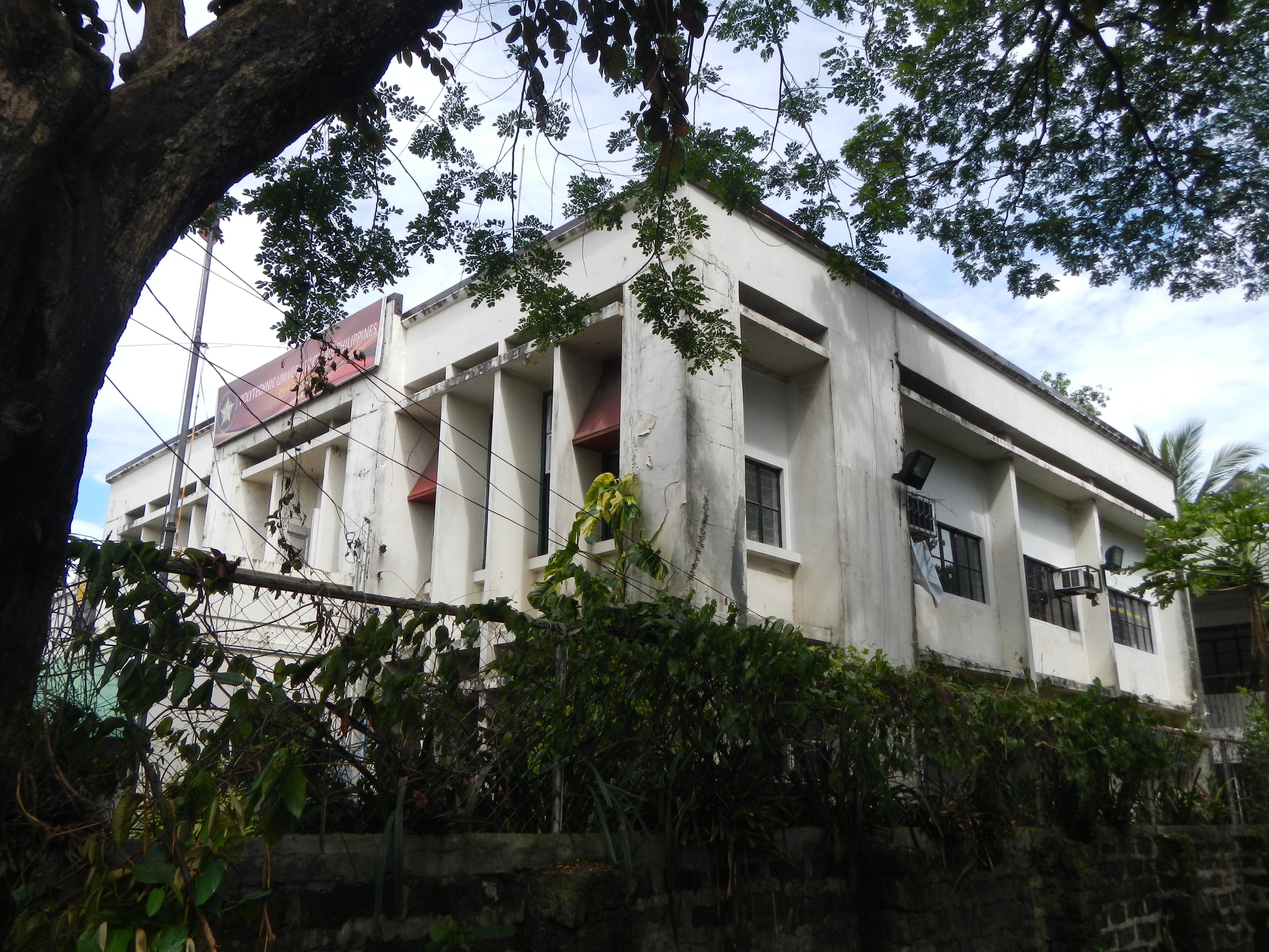 Polytechnic University of the Philippines, Pulilan [1] Barangay Poblacion, Pulilan, Bulacan under the leadership of Directress Aurora Reyes, in photo in her Administration Office, as subsidiary of the Polytechnic University of the Philippines: this building housed the Heritage Old Pulilan, Bulacan Municipal Hall since 1957 but the Hall was transferred to its new site in Town Proper, Centro.